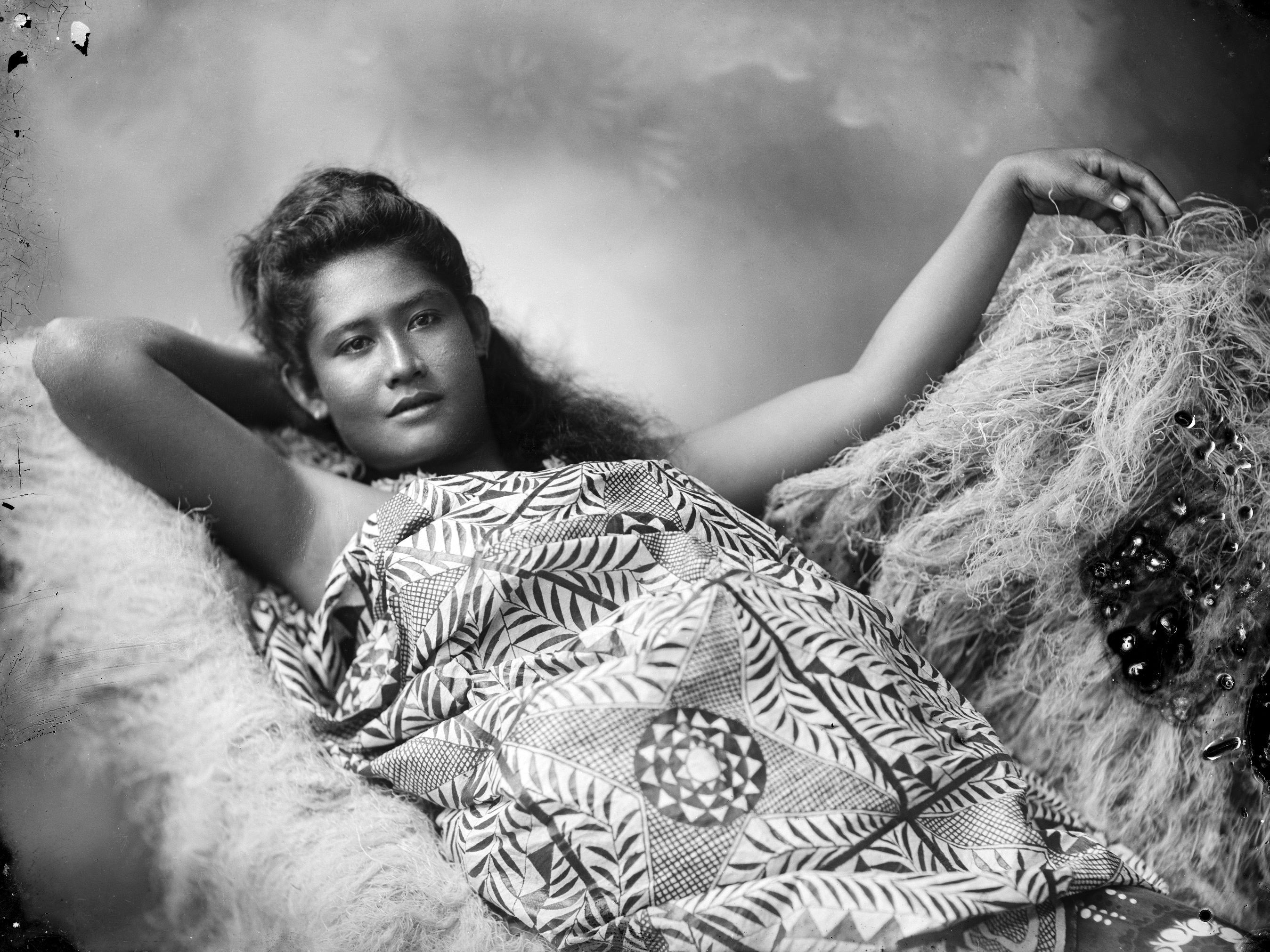 Samoan girl, wearing an elaborate Lavalava, draped in a Siapo (barkcloth).Registration Number: C.001556